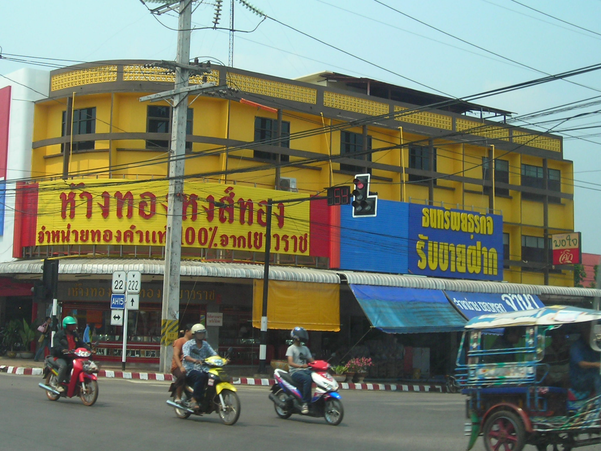 yelllow building, Amphoe Phang Khon in Sakon Nakhon Province, Thailand.